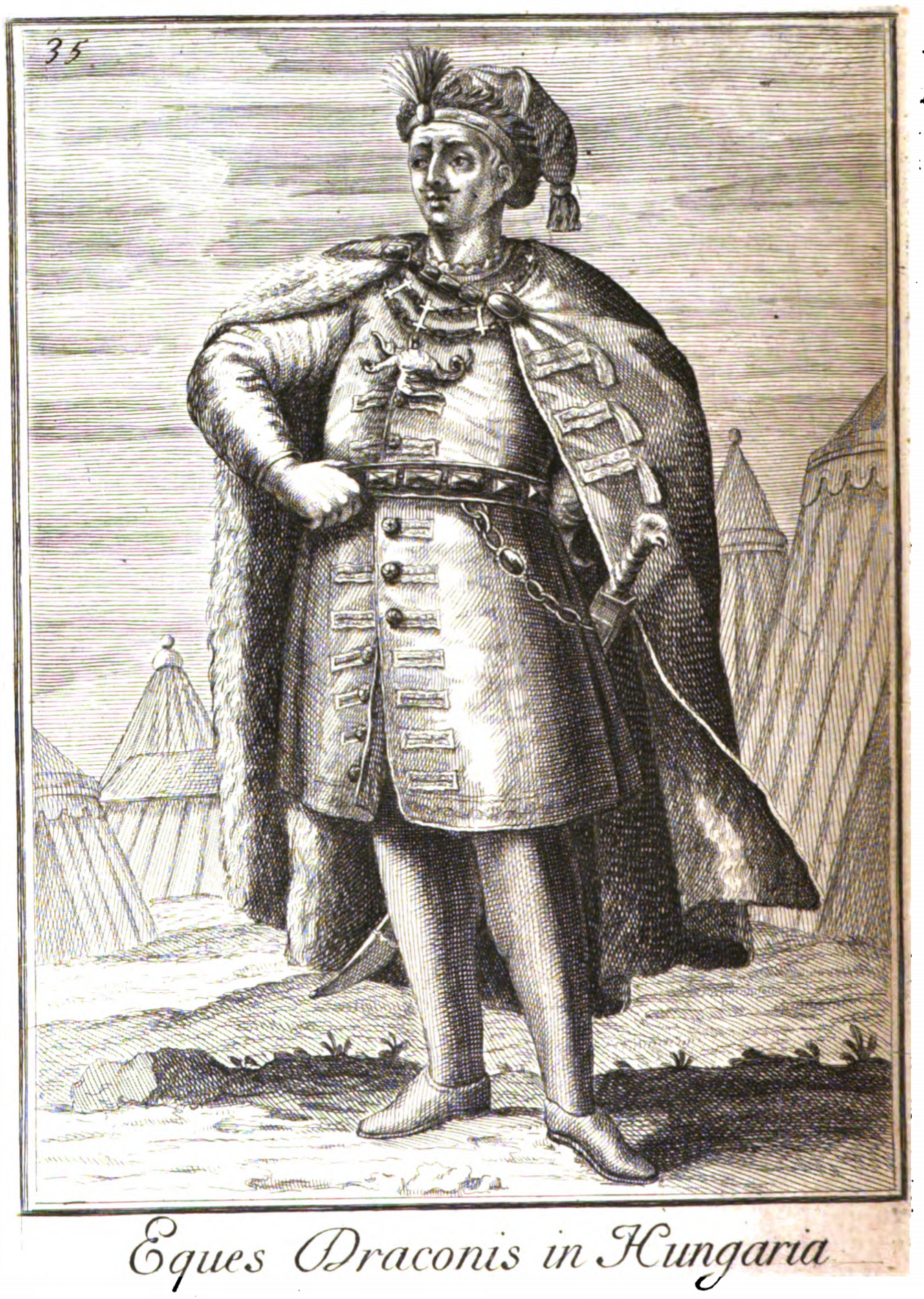 Knight of the Order of the Dragon